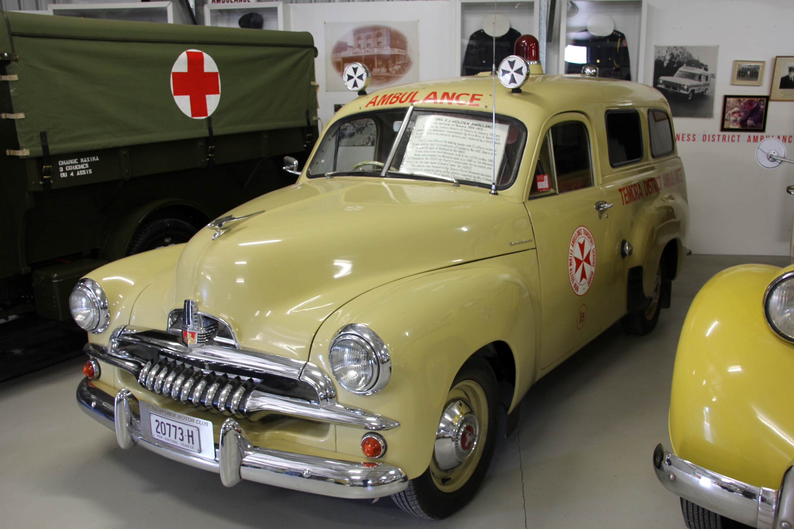 1956 Holden FJ ambulance. Converted from a panel van by W. S. Grice in Summer Hill, Sydney for the former Temora District of the New South Wales Ambulance Transport Service Board. Taken at the Temora Ambulance Museum (part of the Temora Rural Museum), Temora, New South Wales.